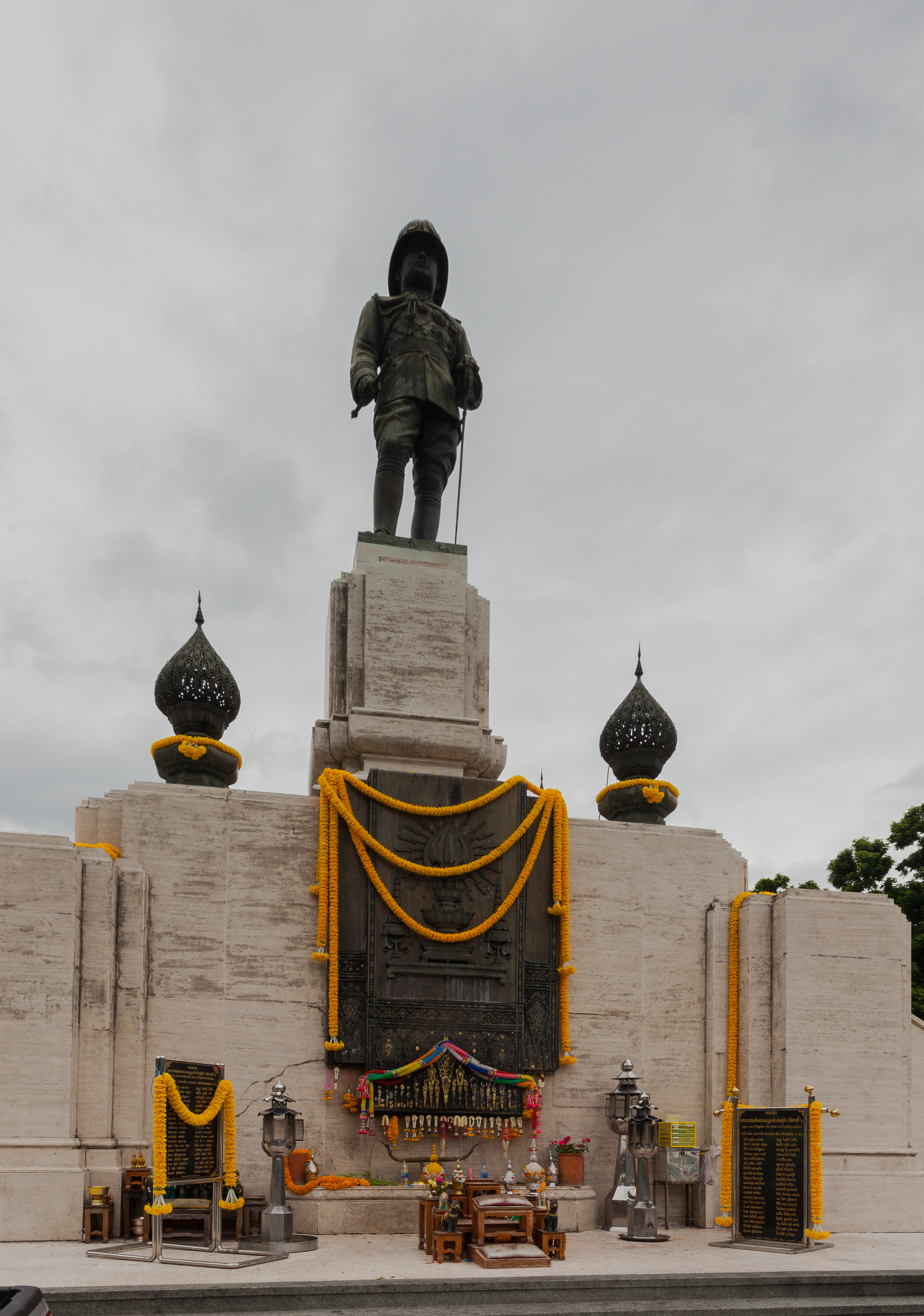 Statue of Rama VI, Lumphini Park, Bangkok, Thailand